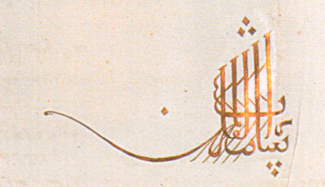 Russian tughra